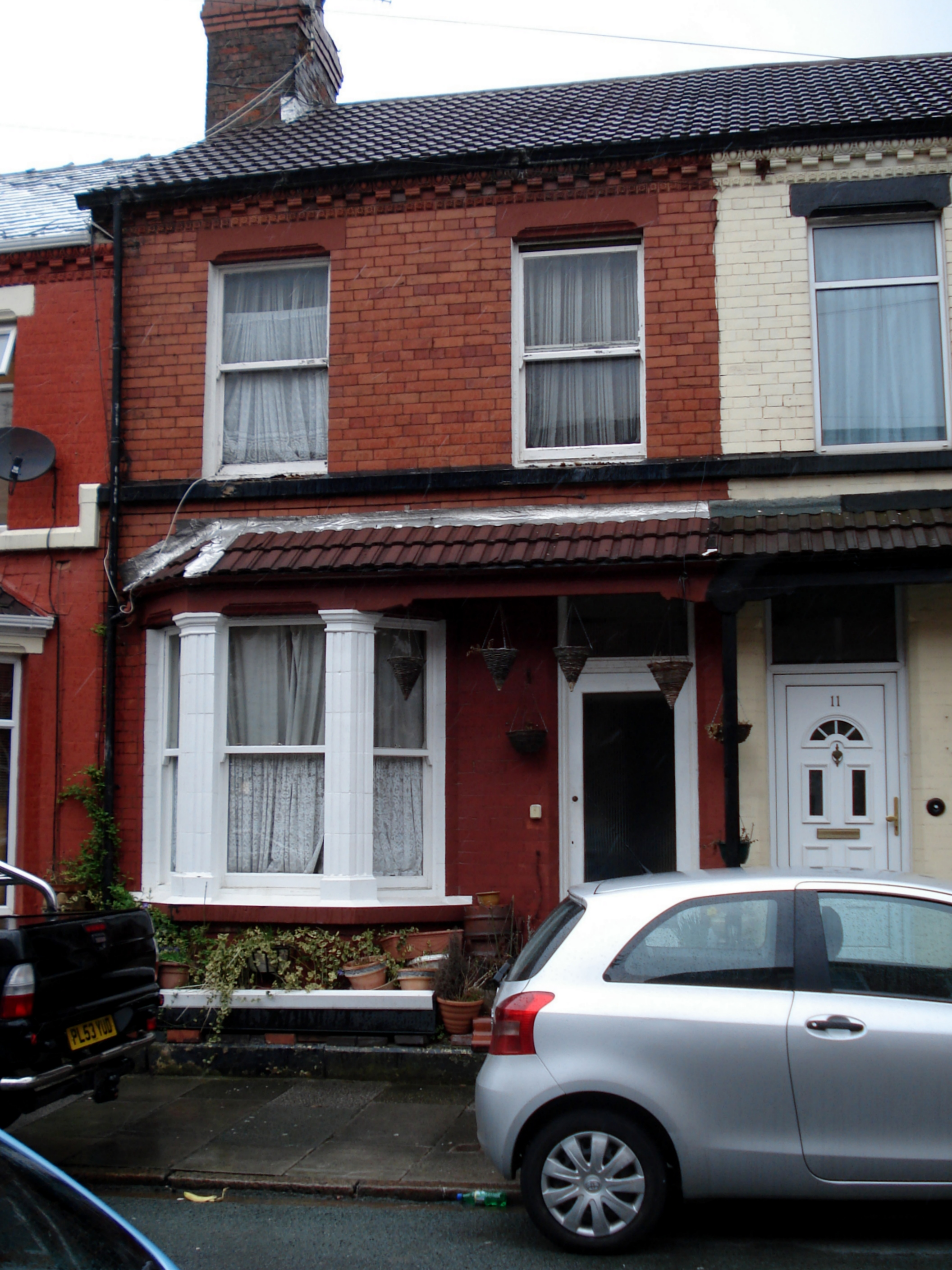 9 NewcastleRoad Liverpool; the former home of the Stanley family